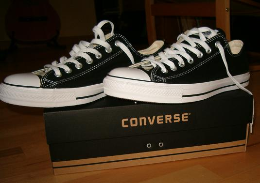 A black pair of classic Chucks